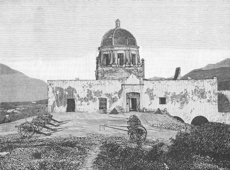 The 18th century Bishop's Palace of Monterrey. In a 19th century drawing.